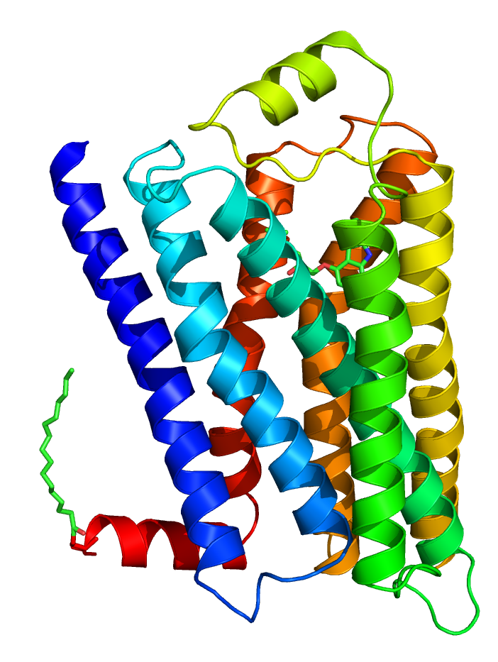 Crystal structure of the beta-2 adrenergic receptor (ADRB2) with its inverse agonist carazolol. Derived from the 2.4 Å crystal stucture of the bata-2 adrenoceptor/T4 lysozyme fusion protein (2RH1, Cherezov V et al. (2007). High-Resolution Crystal Structure of an Engineered Human β2-Adrenergic G Protein Coupled Receptor. Science (in press). PMID: 17962520). Structural informations were obtained from and modelled using spdbv. Blue: TMI. Lightblue: TMII. Cyan: TMIII. Green: TMIV. Lightgreen: Helix in ECL2. Yellow: TMVV. Organge: TMVI. Red-orange: TMVII. Red: Hx8.